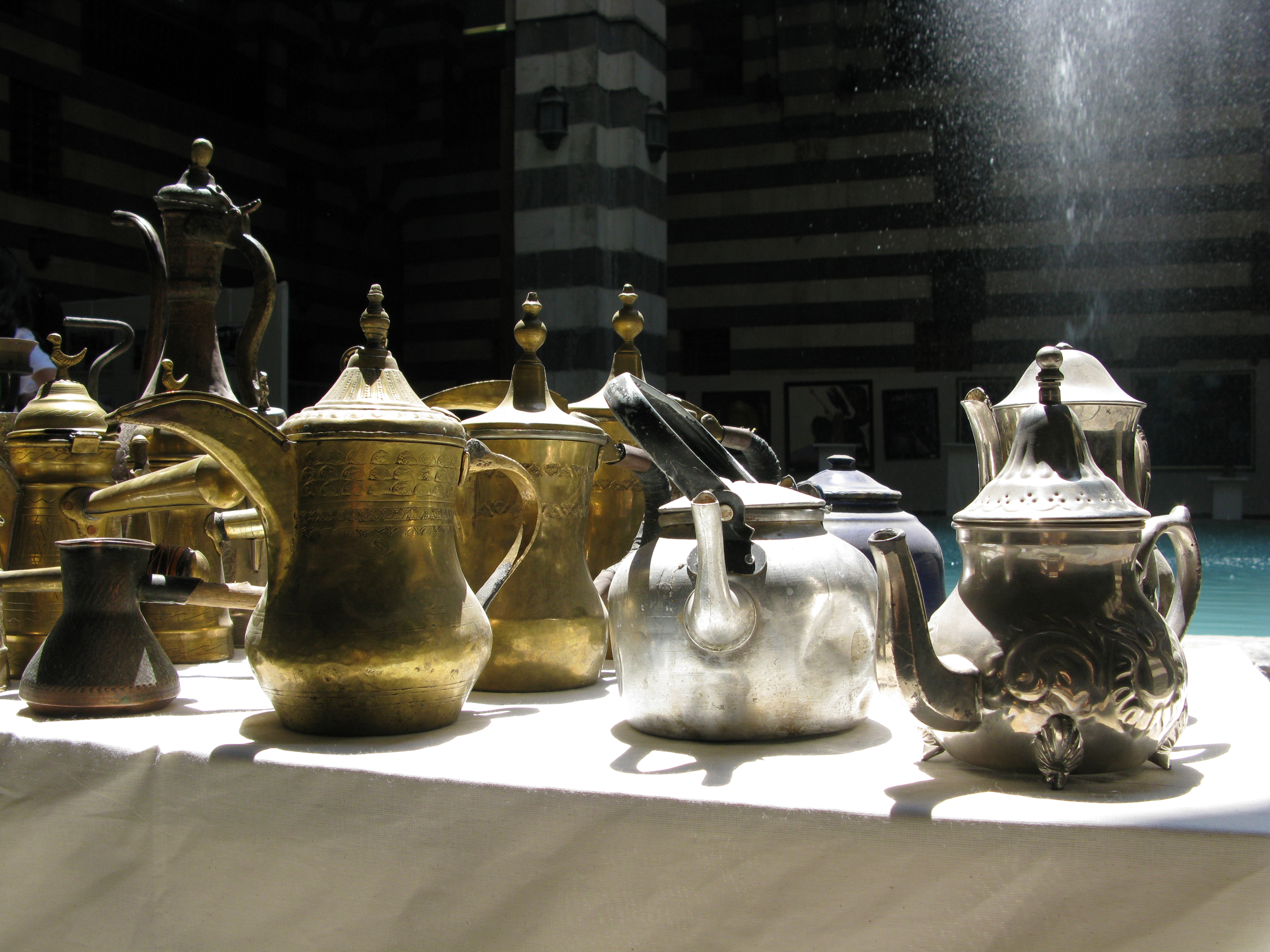 Dallah is a traditional Arabic pot used for centuries to brew and serve Arabic coffee and tea.